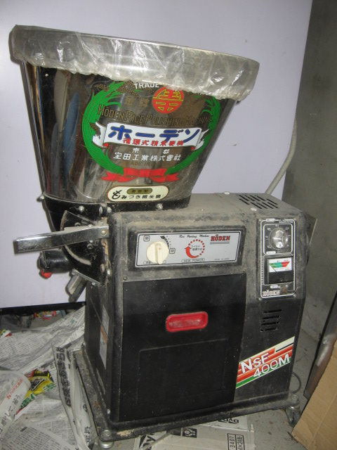 A picture of a japanese-made rice polisher: an example of circular type model. This image was taken by myself.